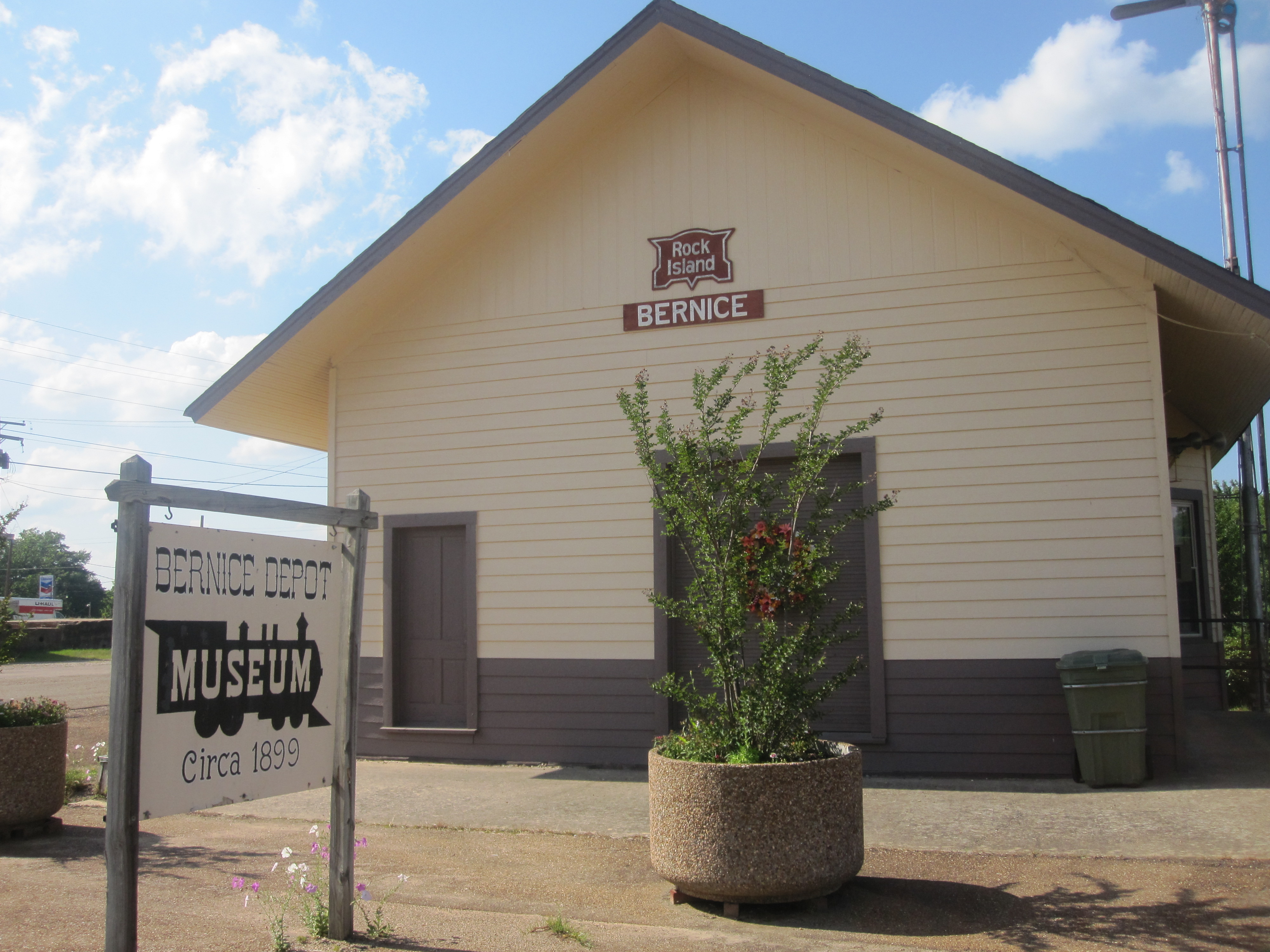 I took photo with Canon camera.